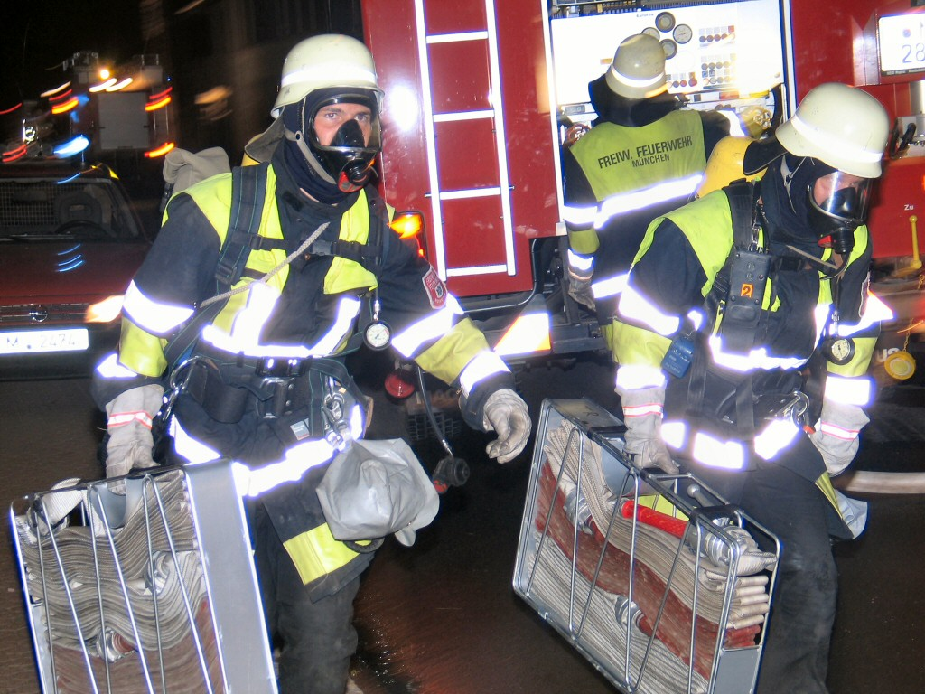 Members of the Munich Volunteer Fire Brigade with hose-carrying boxes during fire drill in Bonnland, 2004